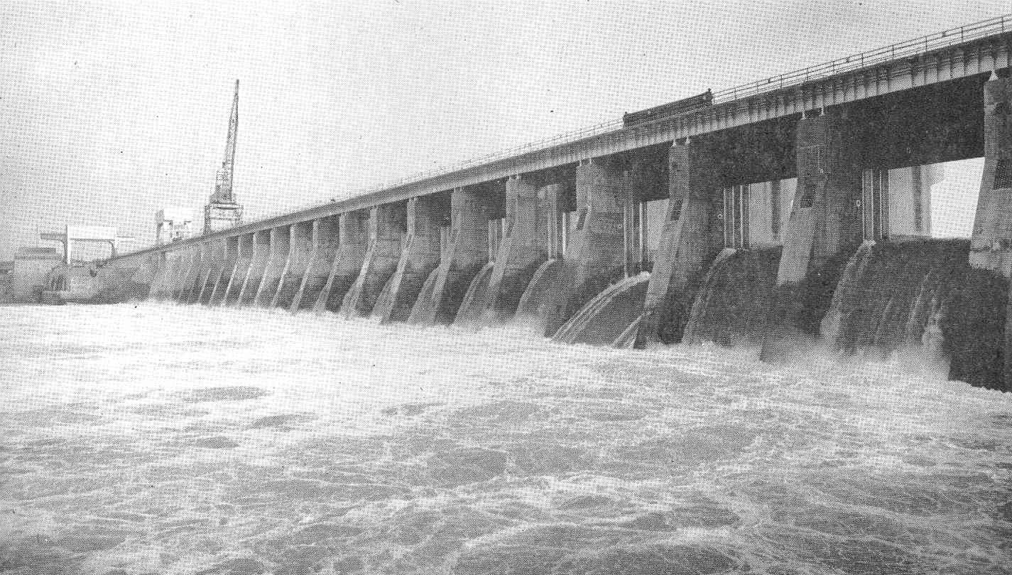 The spillway of Kentucky Dam in the 1940s. The dam, owned and operated by the Tennessee Valley Authority, is located in northwestern Kentucky, USA. The spillway is the largest in the TVA system, having a total discharge of over 1 million cubic feet per second.